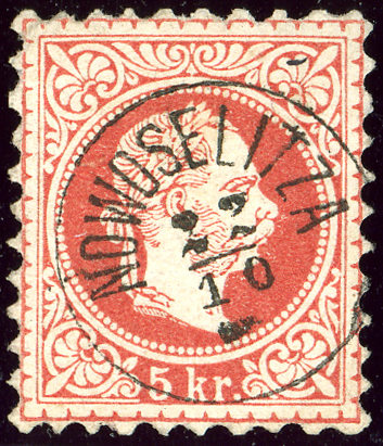 Austria KK stamp, issue 1874, cancelled NOVOSELITZA, Bucovina (now Ukraine) - Klein type 439 (year blacked)